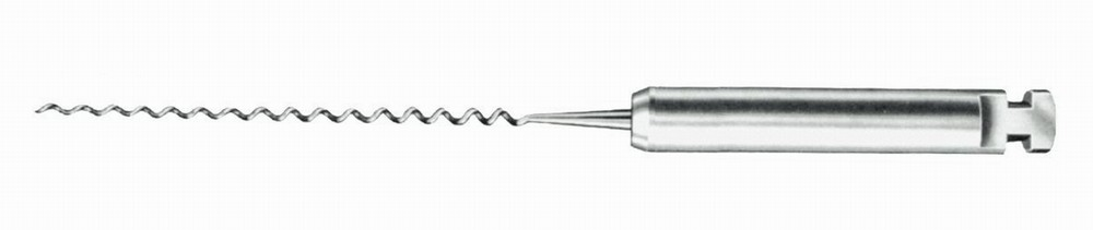 Lentulo spiral / root canal filler